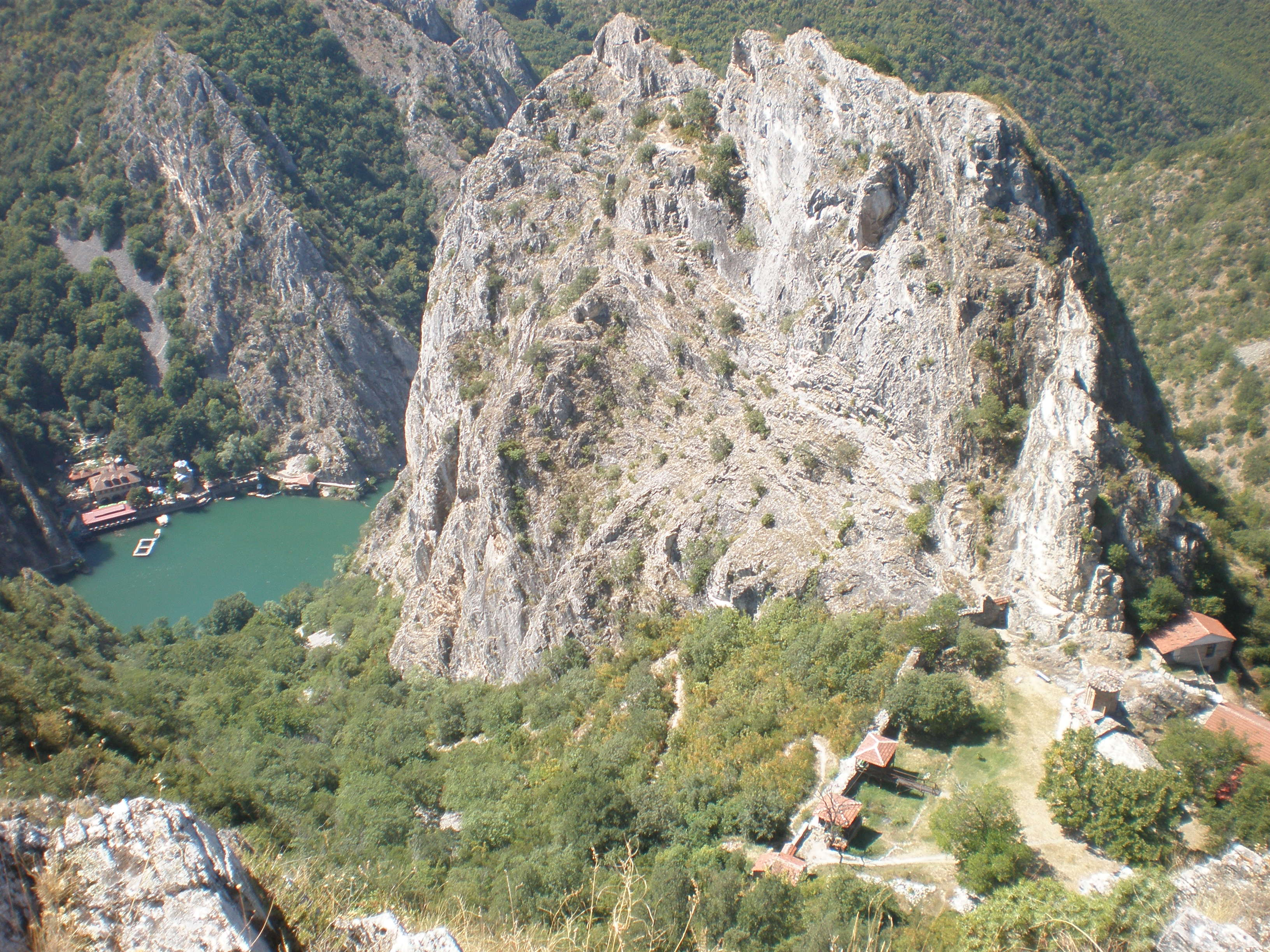 View of the monsteries of St.Nicolas of Shishevo and St.Andrew in the Matka Canyon, Macedonia